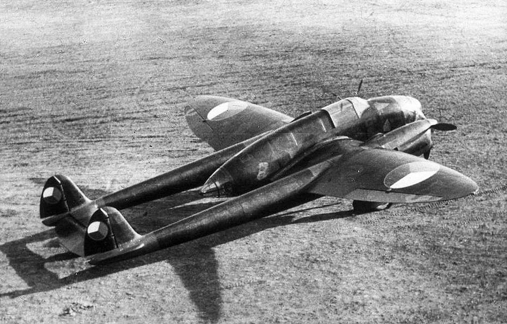 Walter Sagitta I-MR and Praga E-51 (1938)